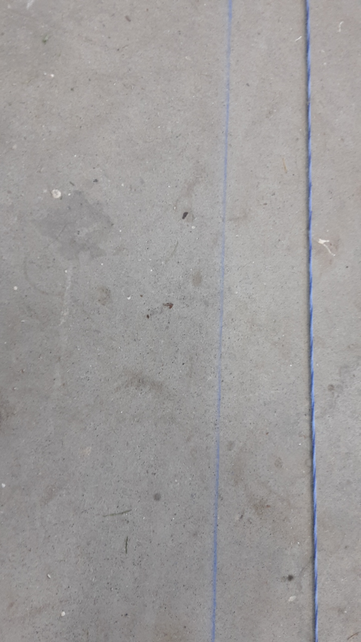 Chalk line mark